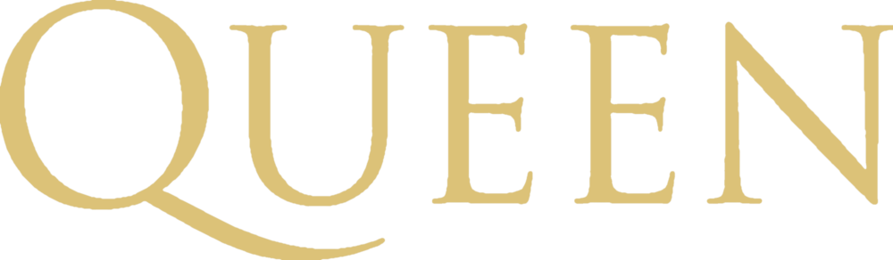 Queen Logo